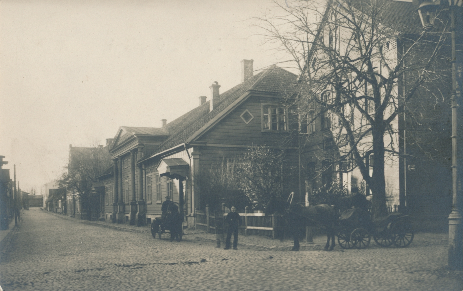 Posti street, Viljandi, ca 1905